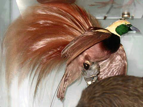 Description: Raggiana Bird of Paradise - Source: own work - Location: AMNH, New York - Author: self, User:Stavenn